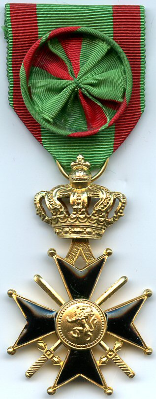 Military Cross 1st class (Belgium)